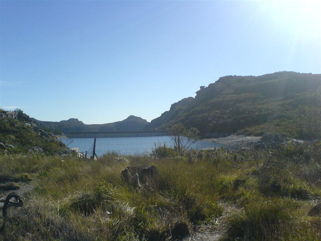 Picture of De Villiers reservoir, just to the left of the Bridle Path once it reaches the top of the back of Table Mountain. Taken by myself.